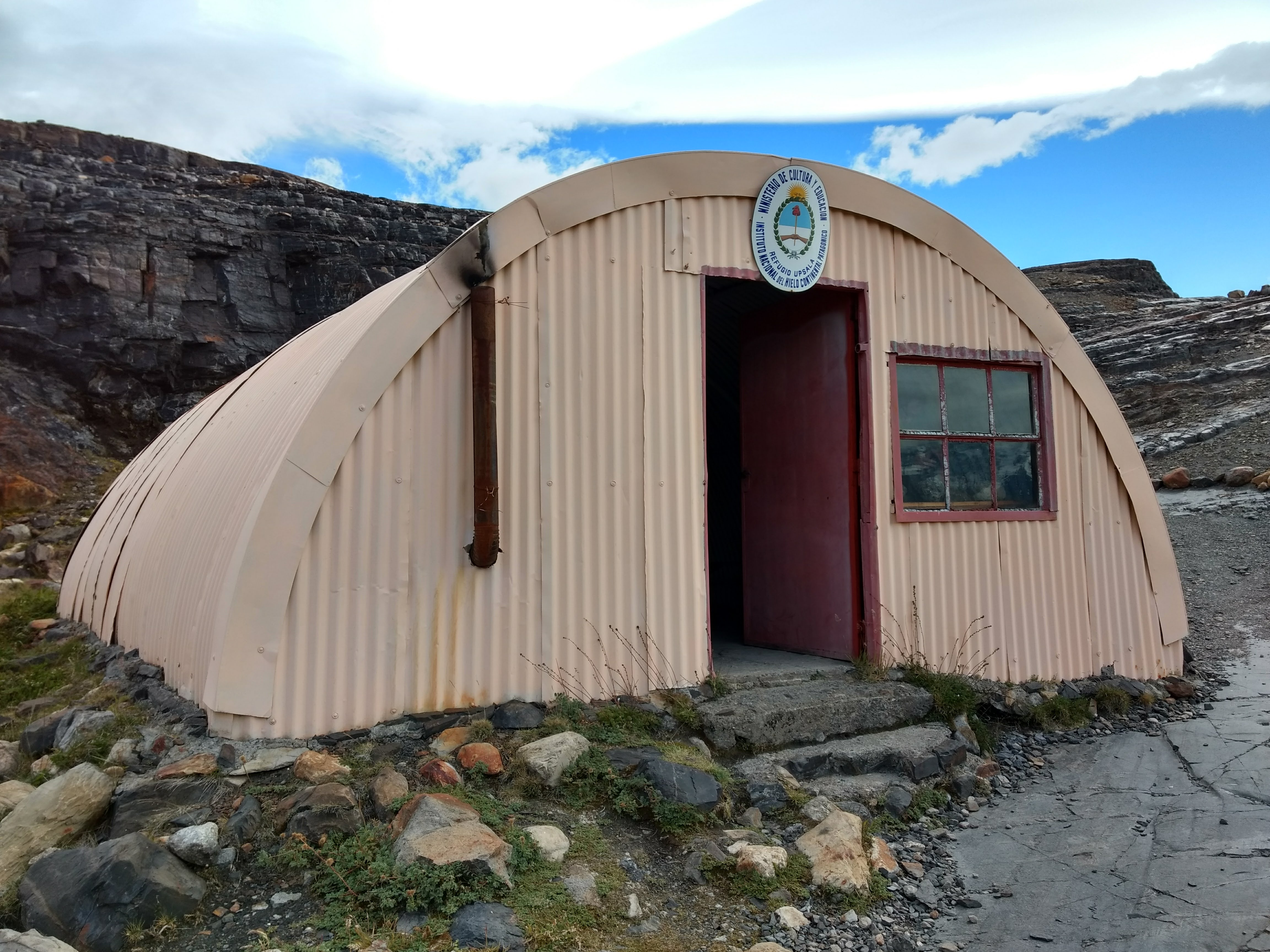 Upsala mountain hut built by Instituto Nacional del Hielo Continental Patagónico near Upsala glacier, Departamento Lago Argentino, Santa Cruz, Argentina